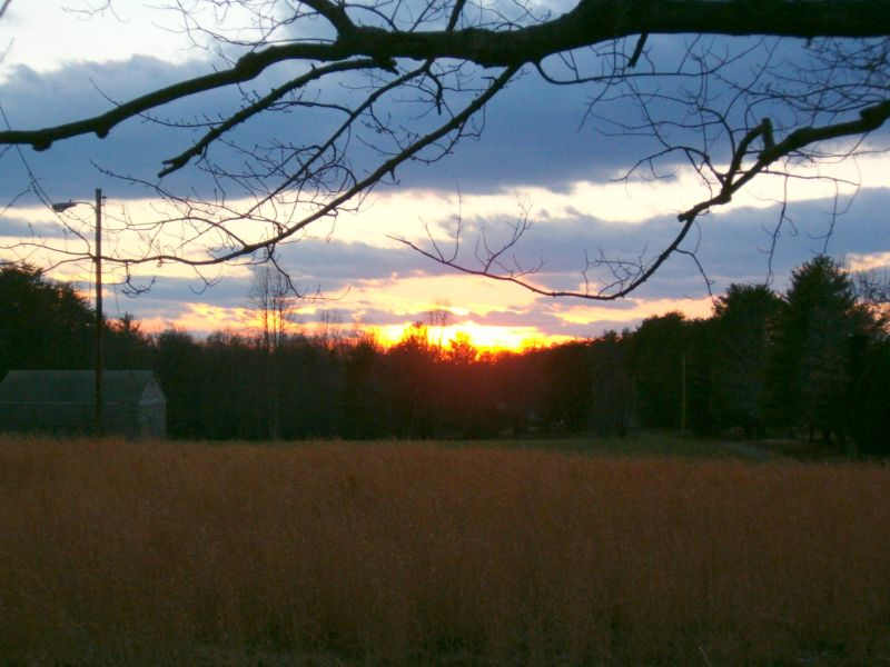 A view of the countryside -Keswick, VA